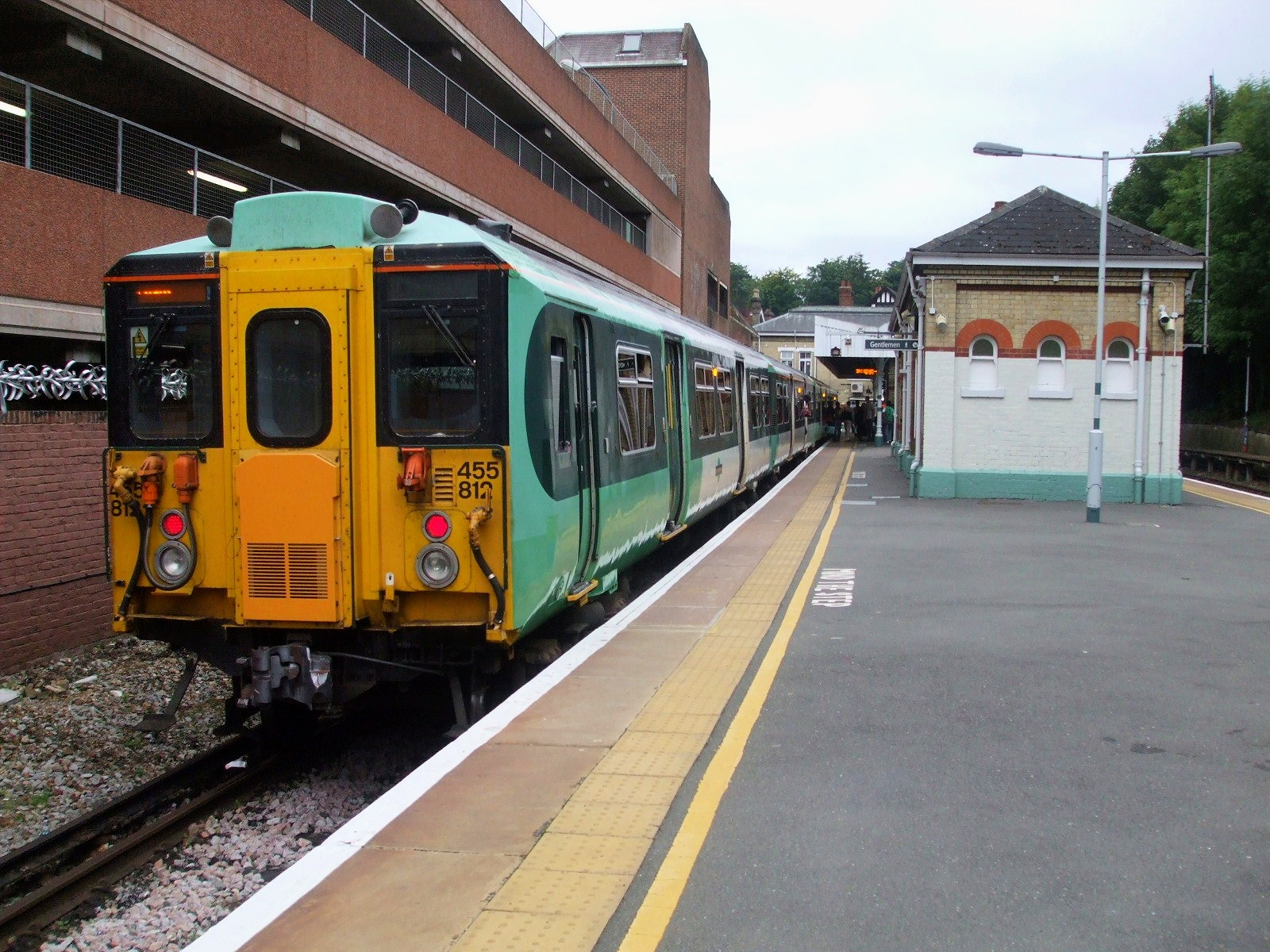 Class 455 unit 455812 arrives at Caterham